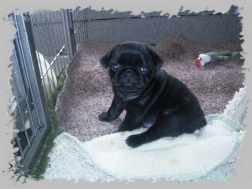 Black Pug Puppy from the german kennel "Mopszucht vom Mägdebrunnen",breeder Katja Ries-Scherf.